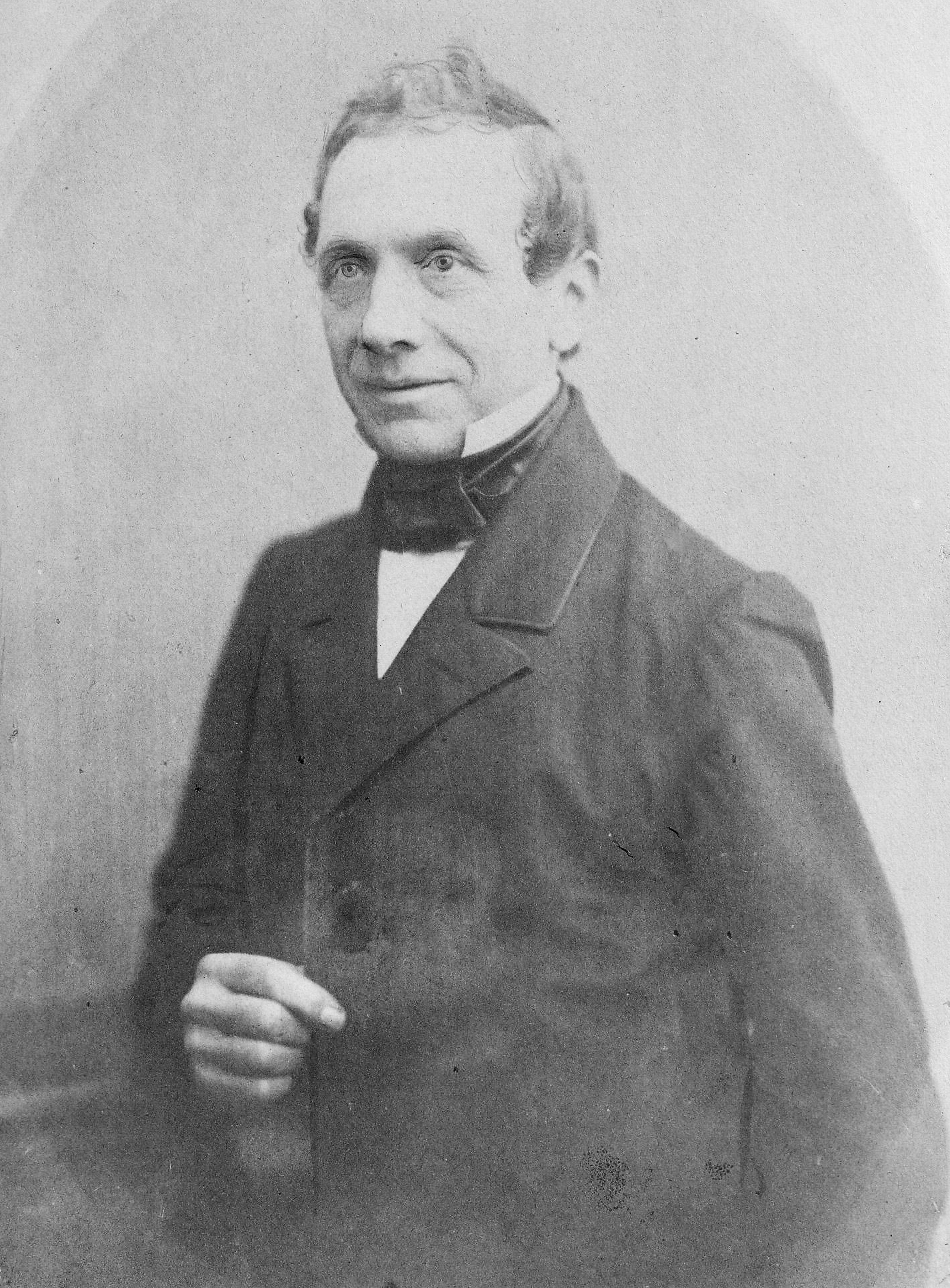 Auguste van Dievoet (1803-1865), Belgian lawyer